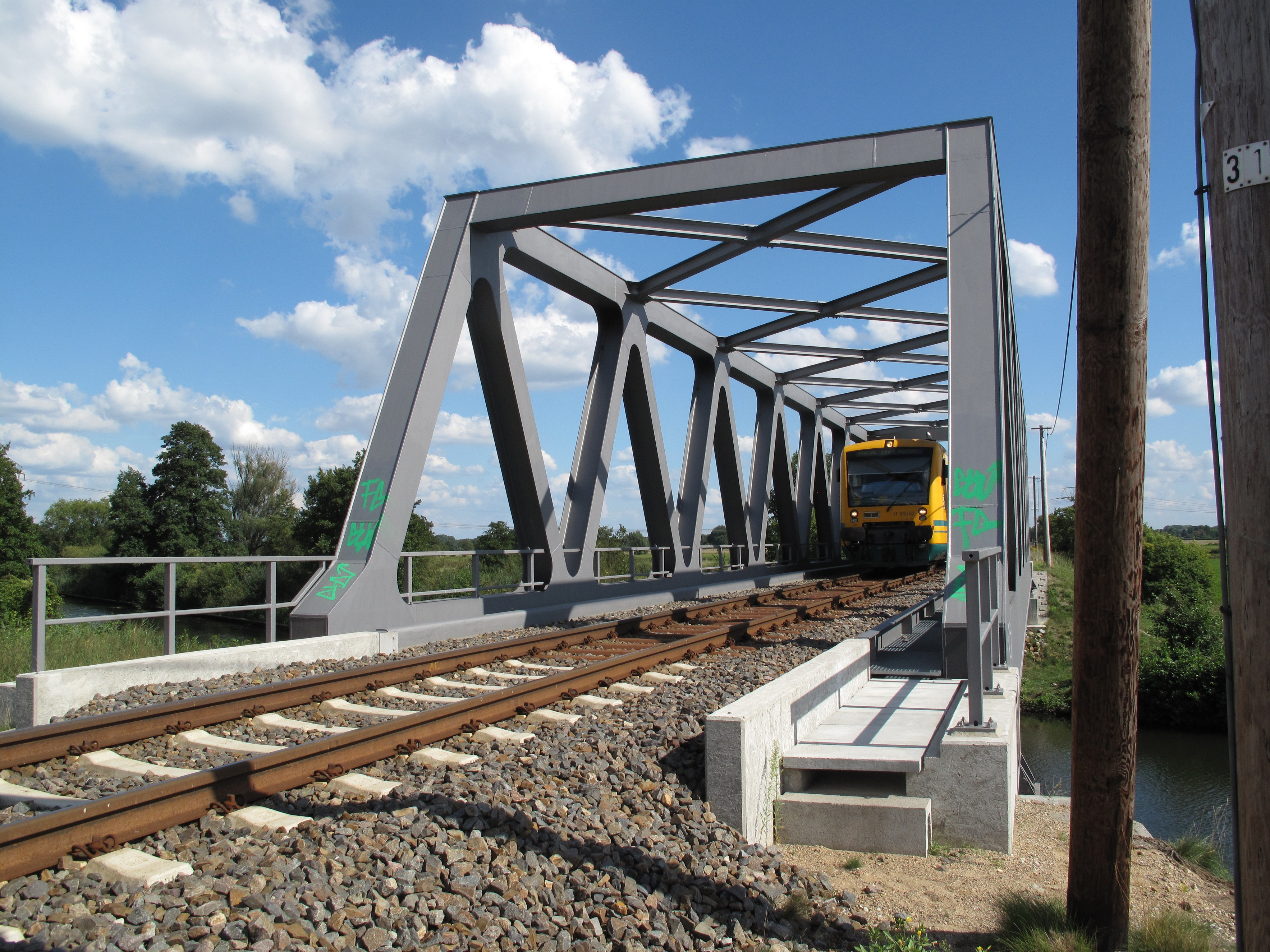 Iron truss frame bridge of the Railway line Königs Wusterhausen–Grunow over the Storkower Kanal (water canal) in the Naturschutzgebiet Luchwiesen. The protected area covers 109,57 hectare and is situated in the town Storkow, District Oder-Spree, Brandenburg, Germany. It is placed in the Dahme-Heideseen Nature Park.